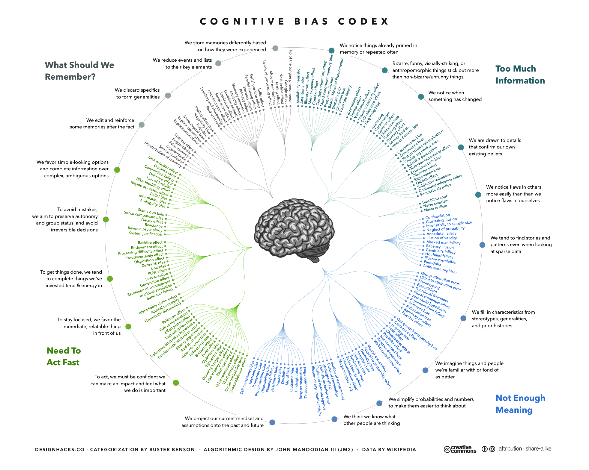 Wikipedia's complete (as of 2016) list of cognitive biases, arranged and designed by John Manoogian III (jm3). Categories and descriptions originally by Buster Benson.